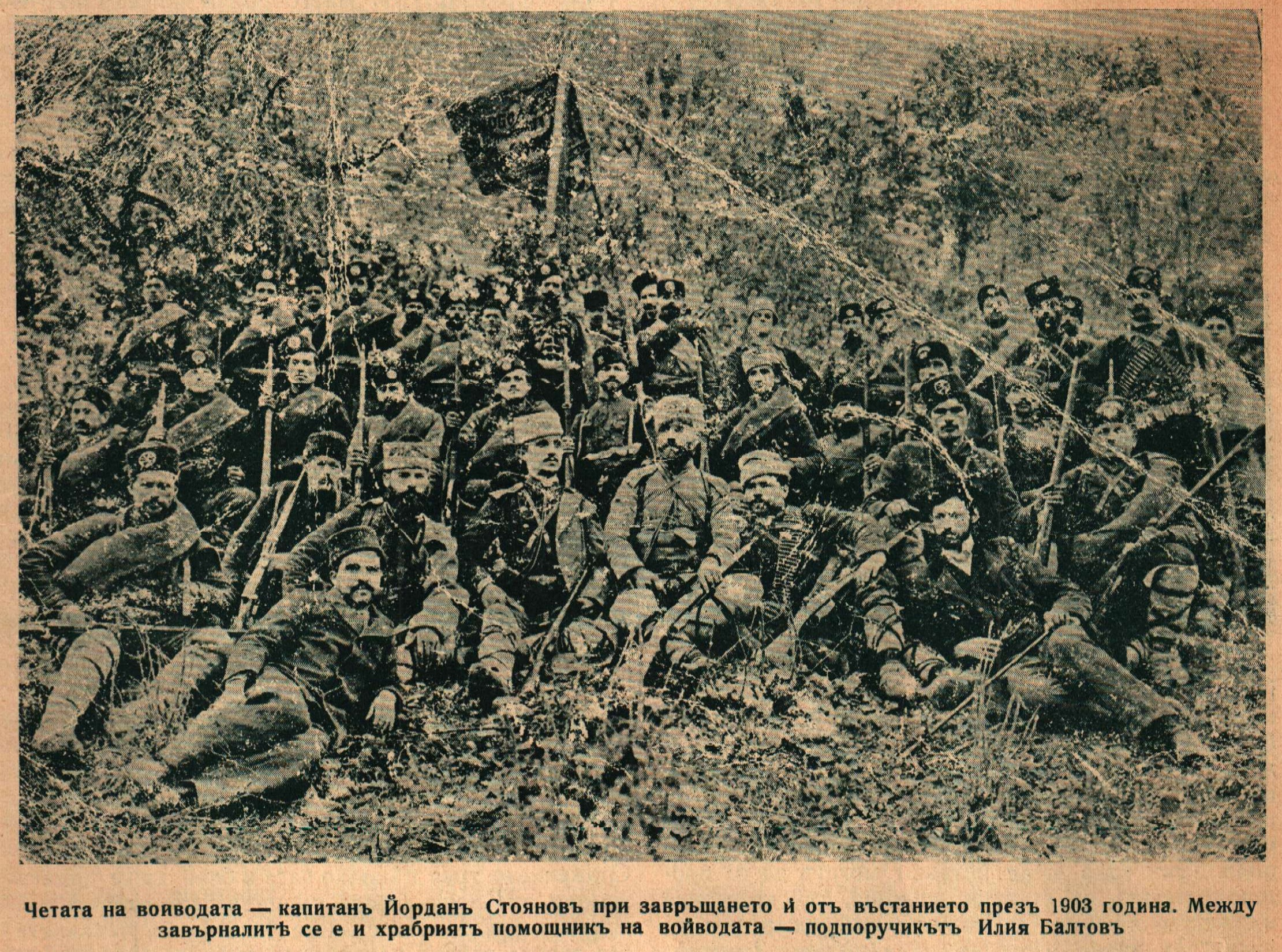 SMAC band of Iliya Baltov and Yordan Stoyanov